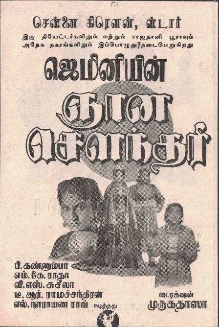 Poster for the 1948 Tamil film Gemini's Gnana Soundari